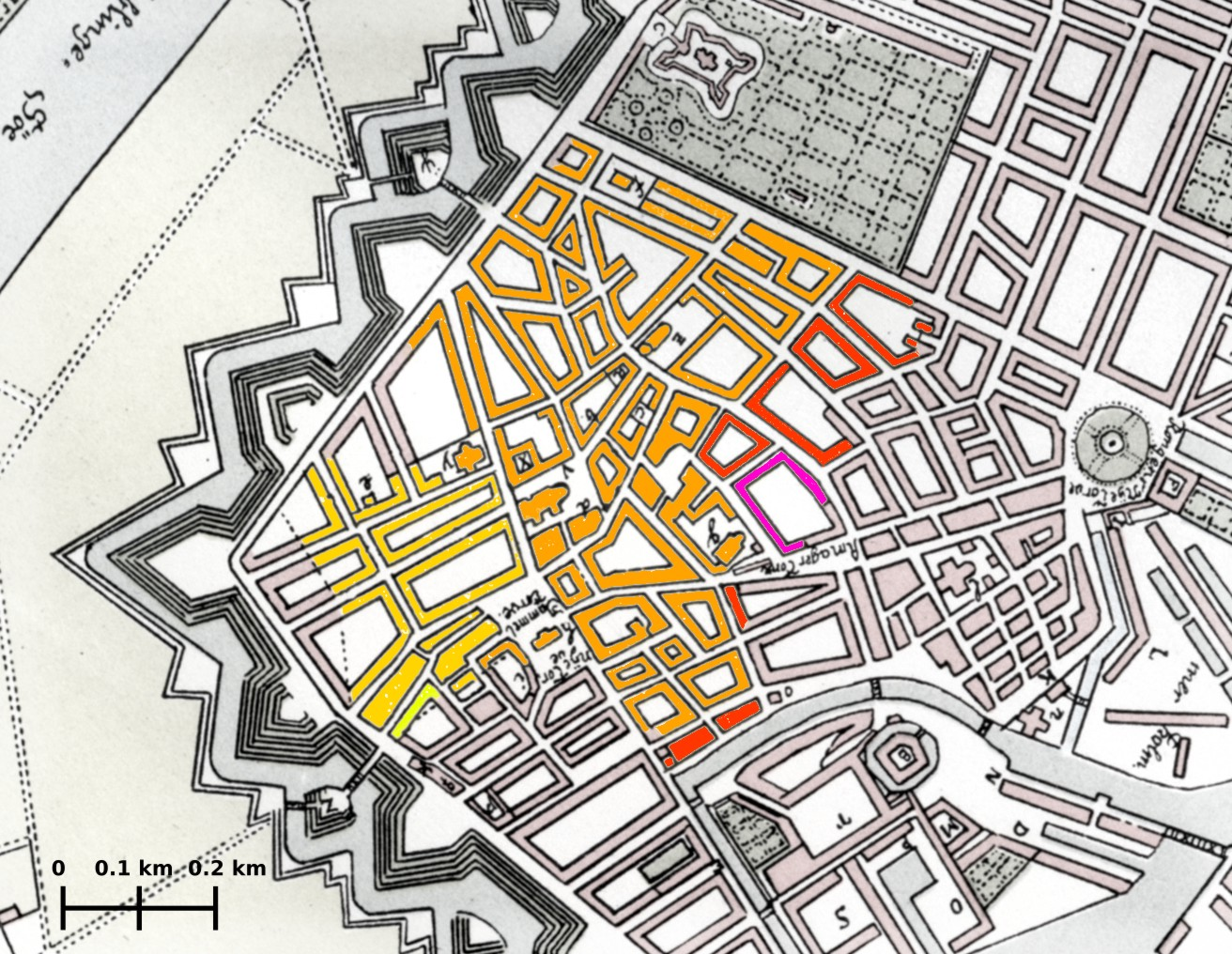 The progress of the Copenhagen Fire of 1728. The extent of the approximate area affected by fire by 8 p.m. on Wednesday October 20, 1728 is in bright yellow, the approximate area affected by midnight on Wednesday in yellow, the approximate area affected by midnight on Thursday in orange, the approximate area affected by midnight on Friday in red and the area affected by Saturday is shown in purple.